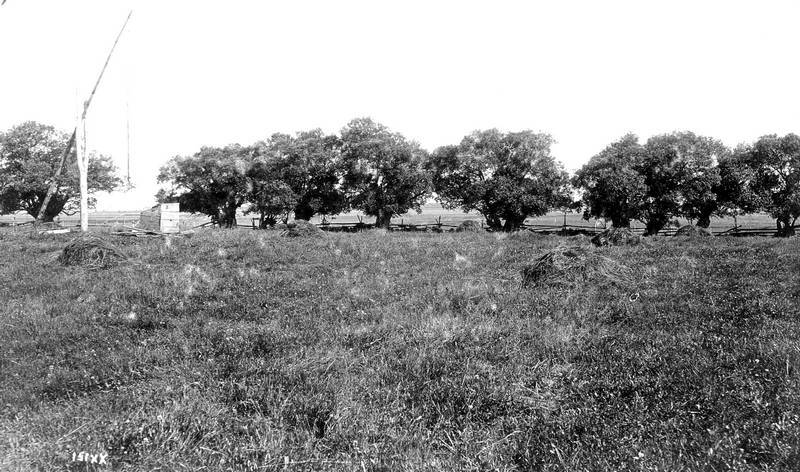 The old well in Grand-Pré, Nova Scotia.